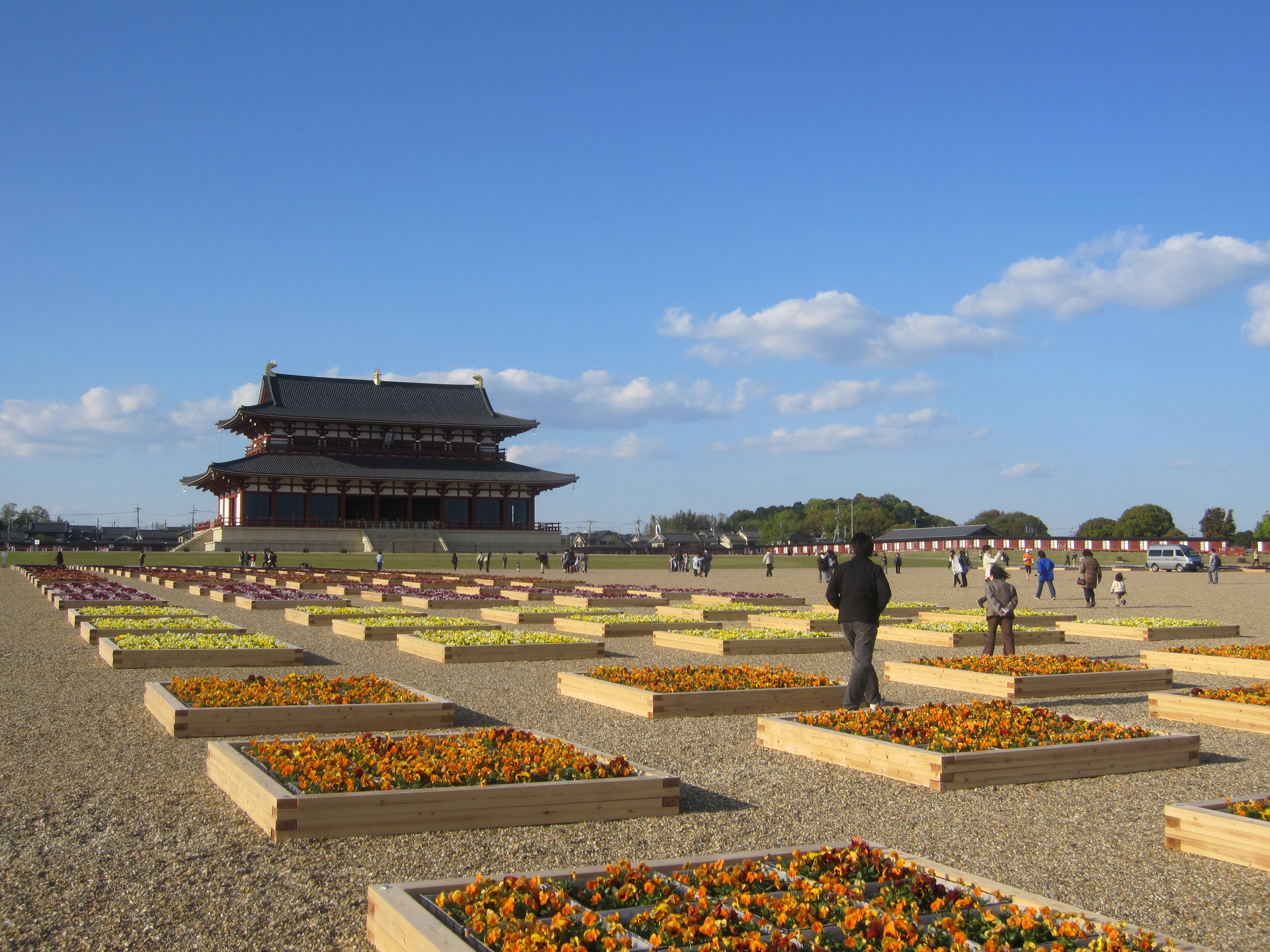 Front Courtyard of the Former Imperial Audience Hall